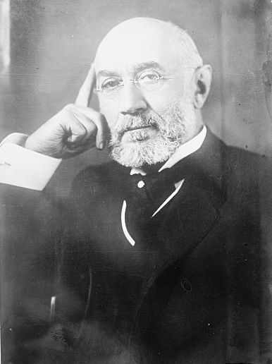 Isidor Straus, a German Jewish American, a Member of Congress in the United States, he died on board the RMS Titanic